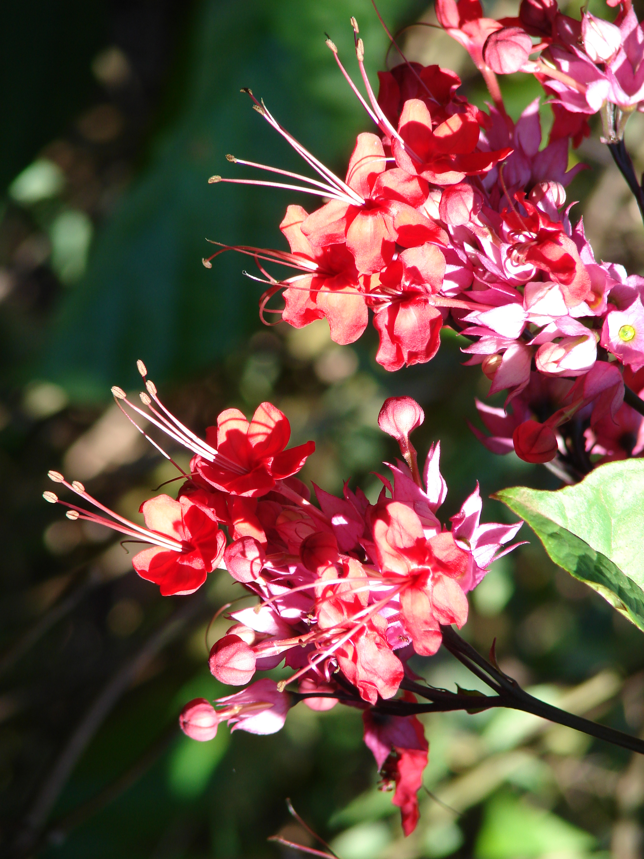 Clerodendrum x speciosum (flowers). Location: Maui, Enchanting Floral Gardens of Kula